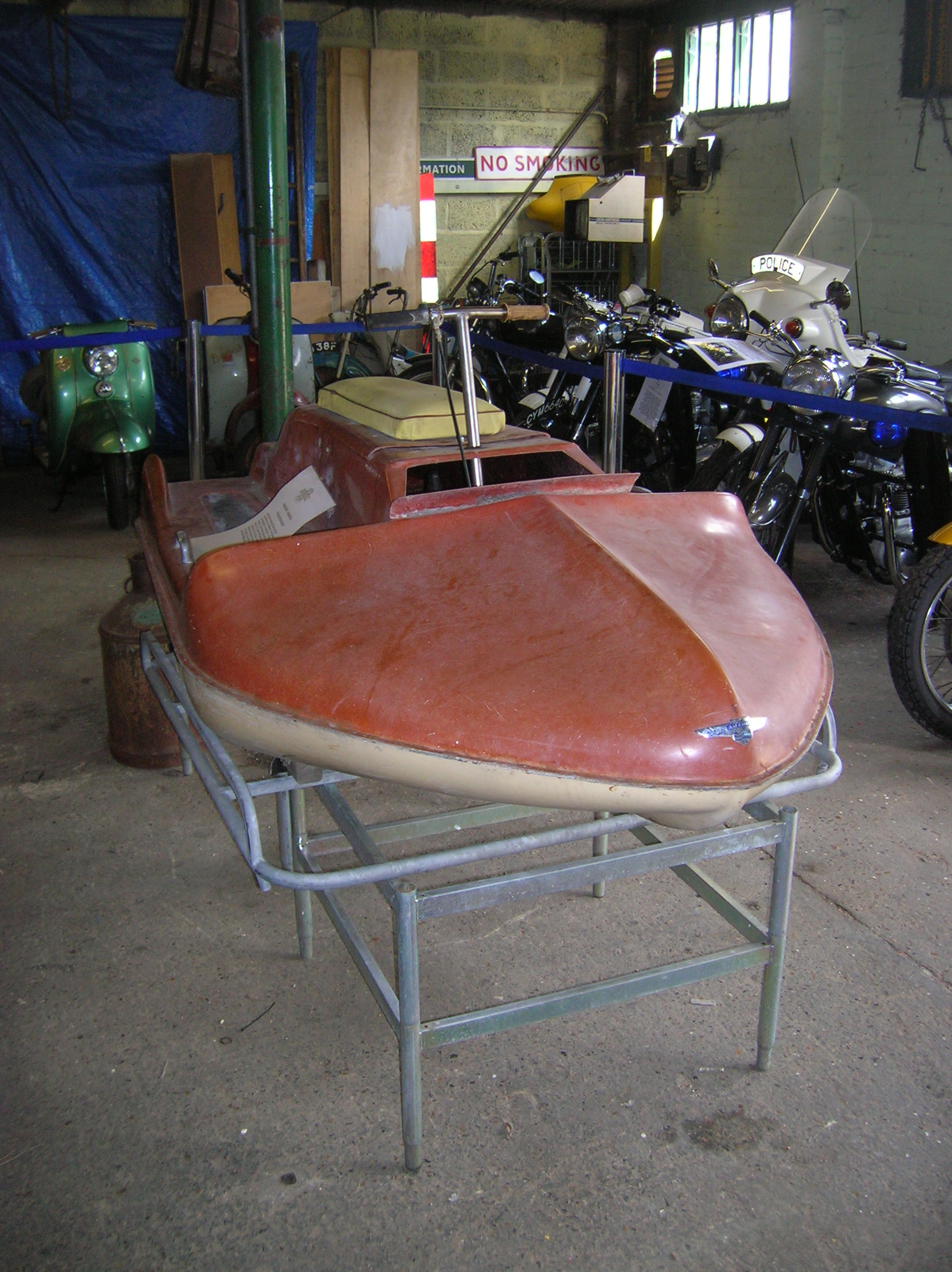 unsucessful leisure watercraft made by Vincent Motorcycle company, on display at the London Motorcycle Museum.